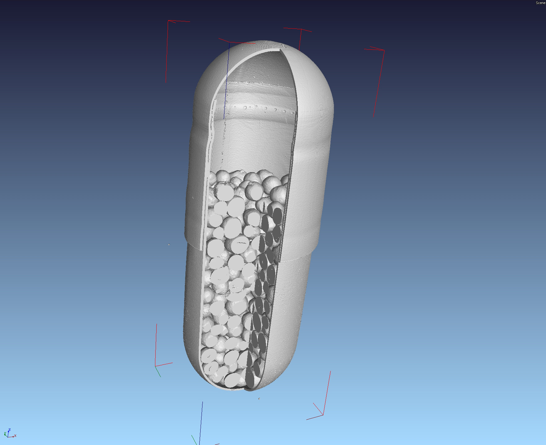 Microtomographic image of a pharmaceutical capsule containing Diclofenac. The resolution is about 12 µm/pixel. Data was acquired using a CT Alpha device by Procon X-Ray GmbH, Garbsen, Germany, and visualised using VG Studio Max by Volume Graphics, Heidelberg, Germany.